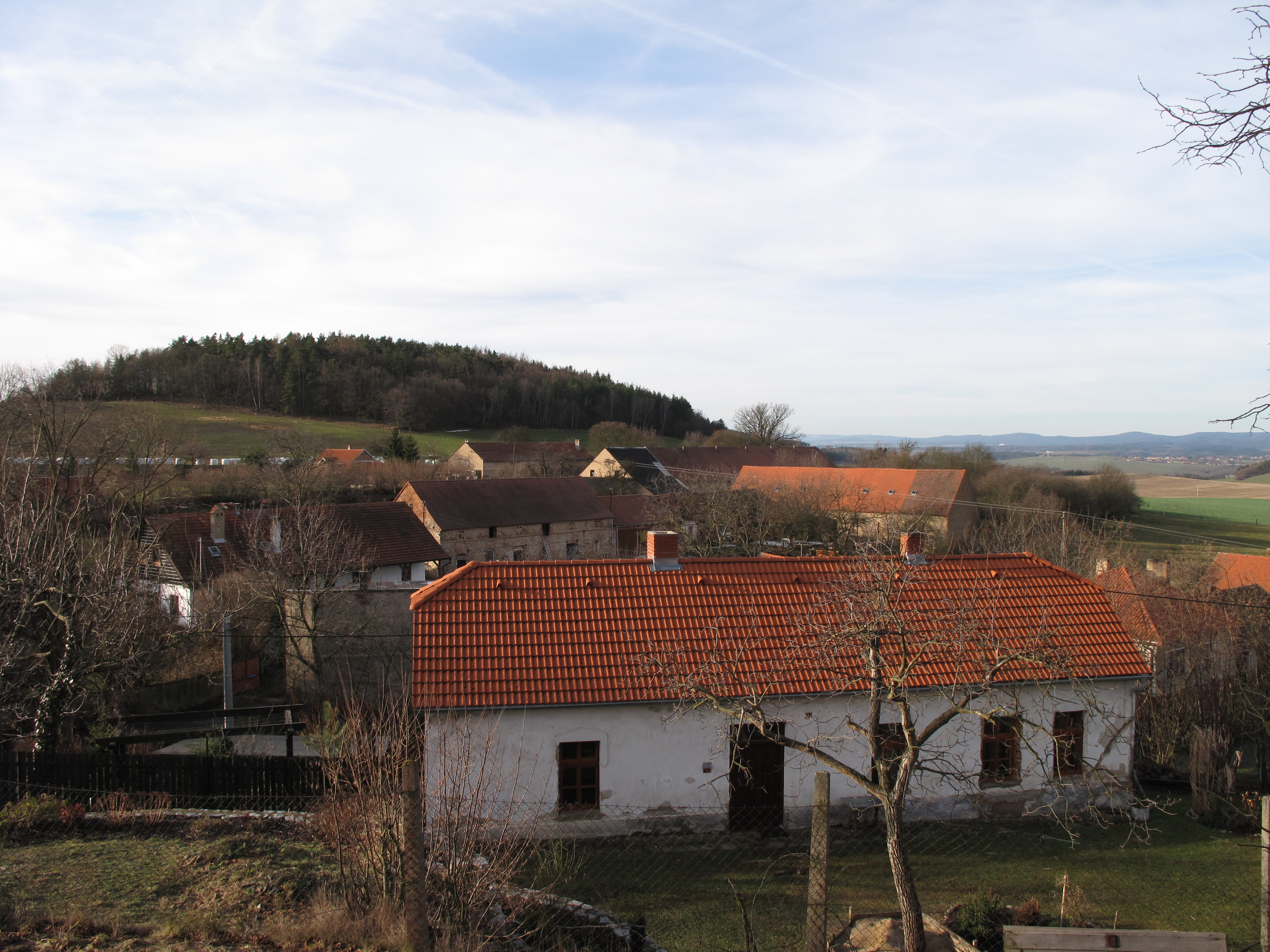 Nové Dvory village as seen from the chapel, Příbram District, Czech Republic.